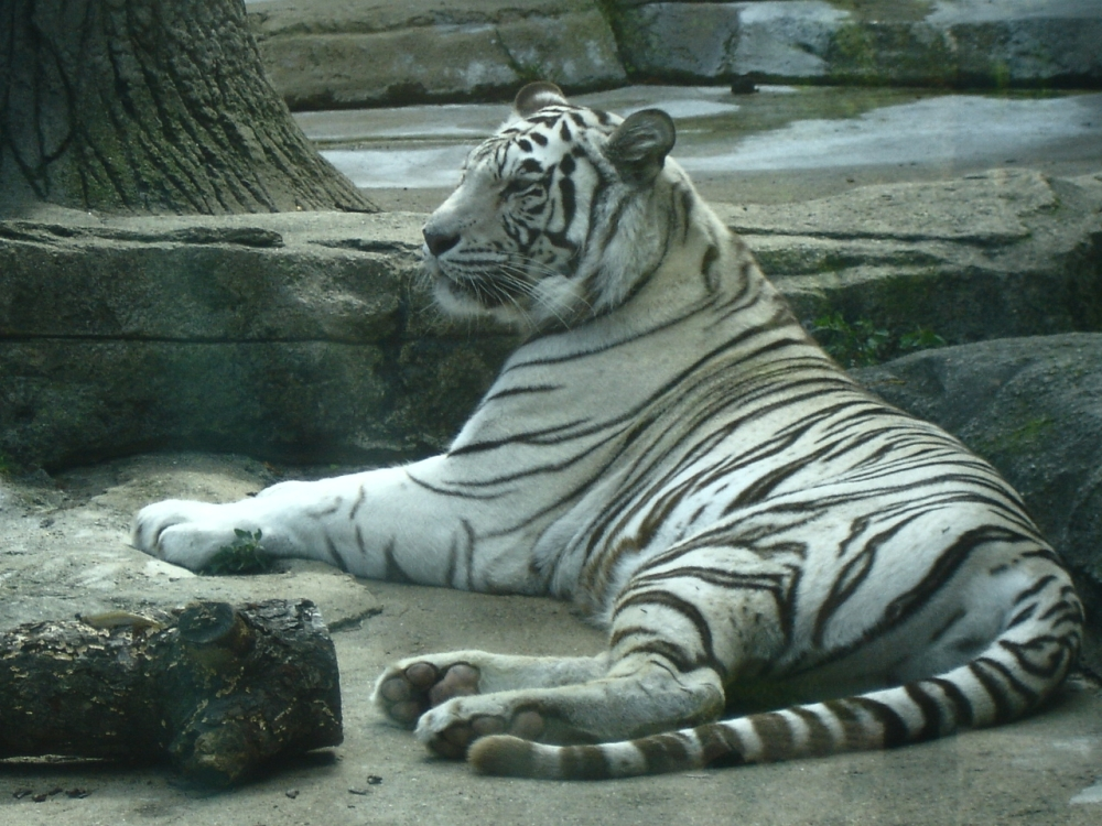 A white Bengal tiger at the Potawatomi Zoo